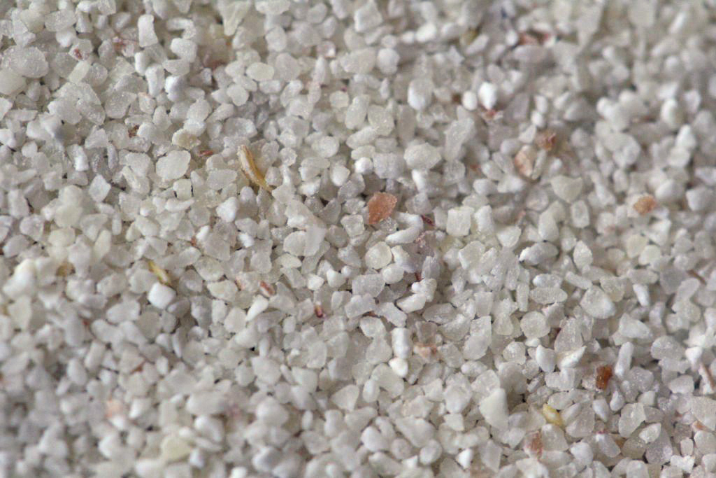 Image showing semolina (rava) grains.